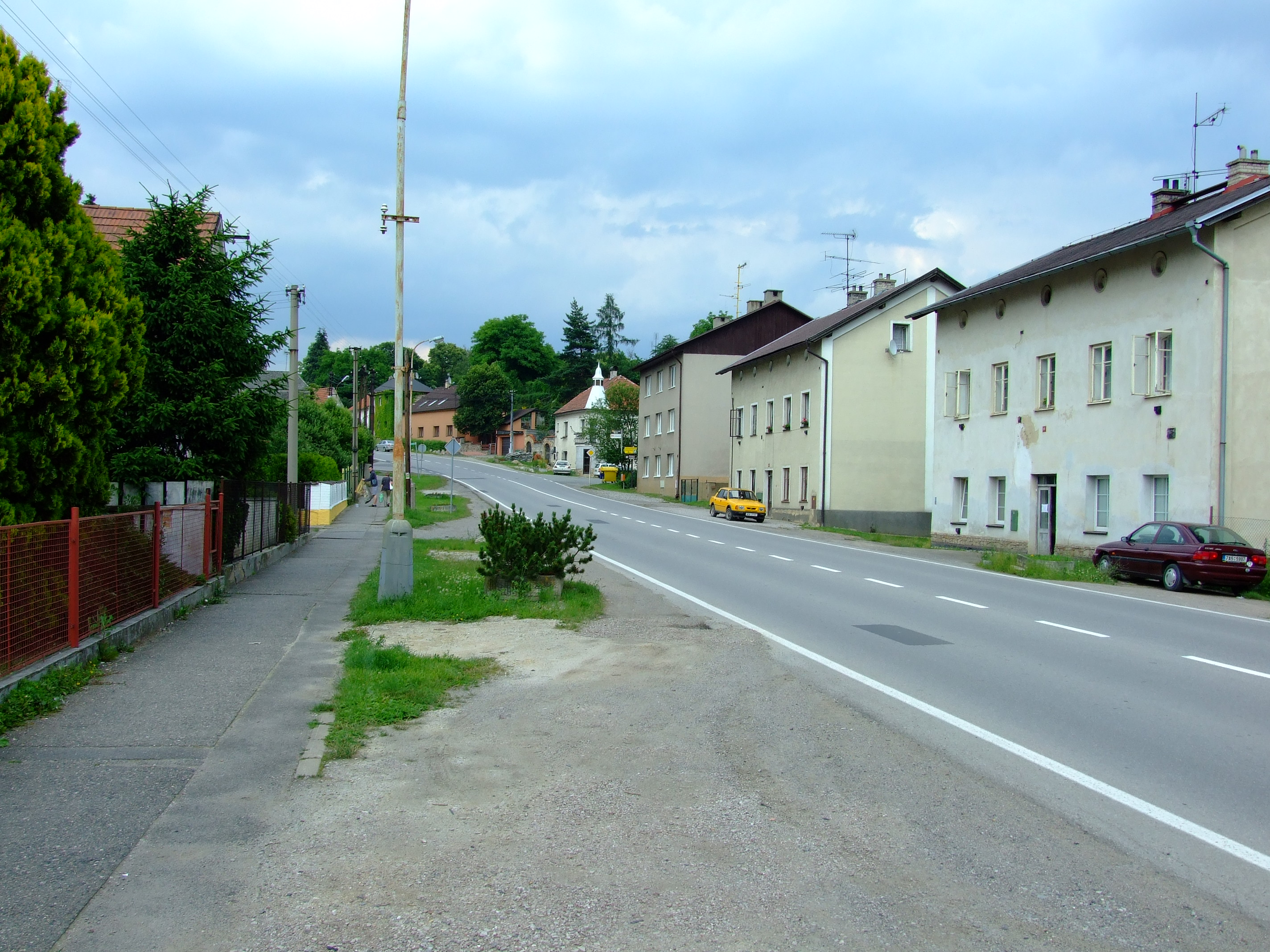 Loděnice town, Central Bohemian region, CZhelp